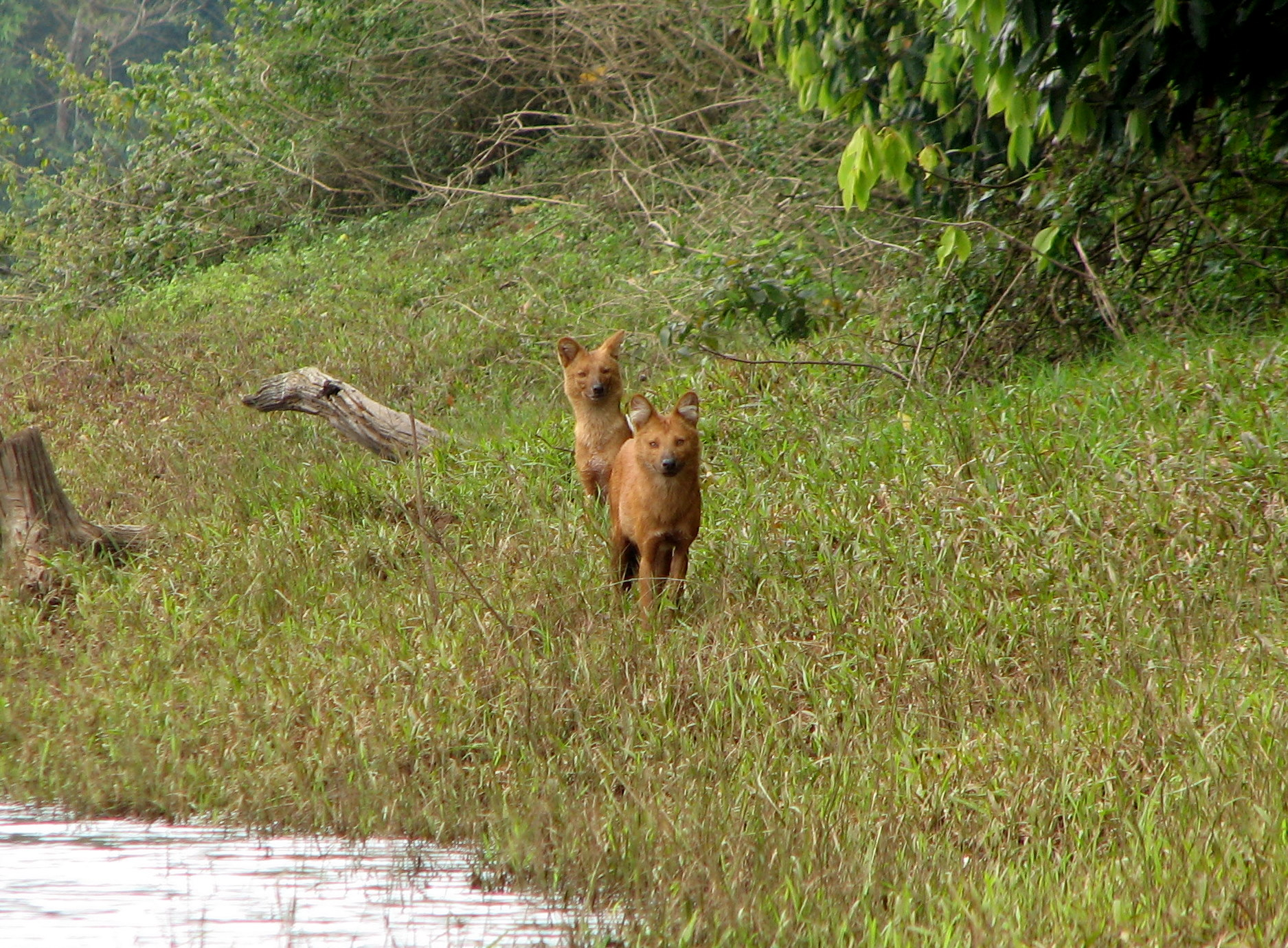 Dholes in the Periyar National Park, Kerala, India